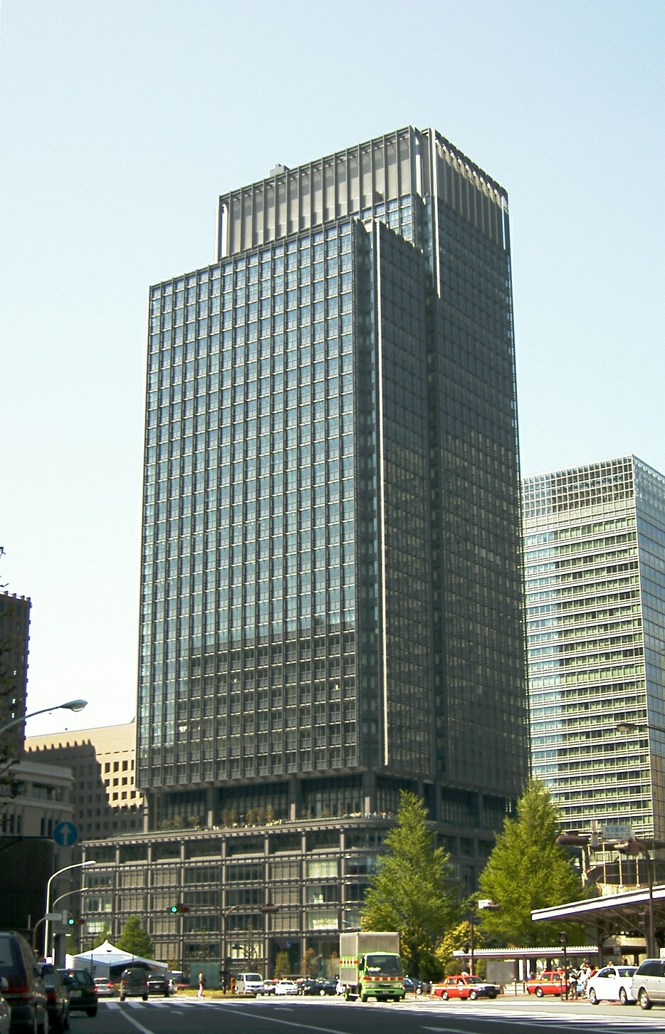 Shin-Marunouchi Building (新丸の内ビルディング), at Marunouchi, Chiyoda, Tokyo, Japan